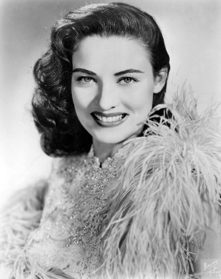 Photo of actress-singer Julie Wilson.